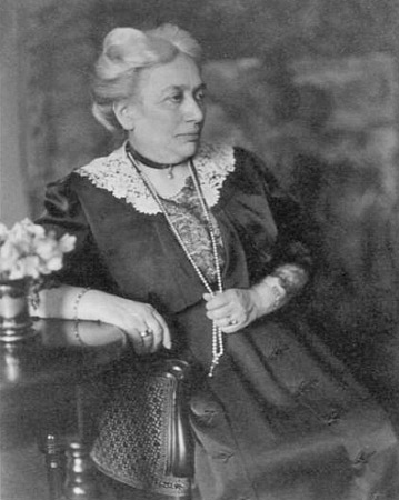 Photograph of Margarethe Krupp (1854-1931)